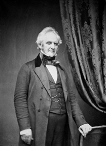 George Peabody, National Portrait Gallery 76.87 ca.1860 (Category:United States history images)